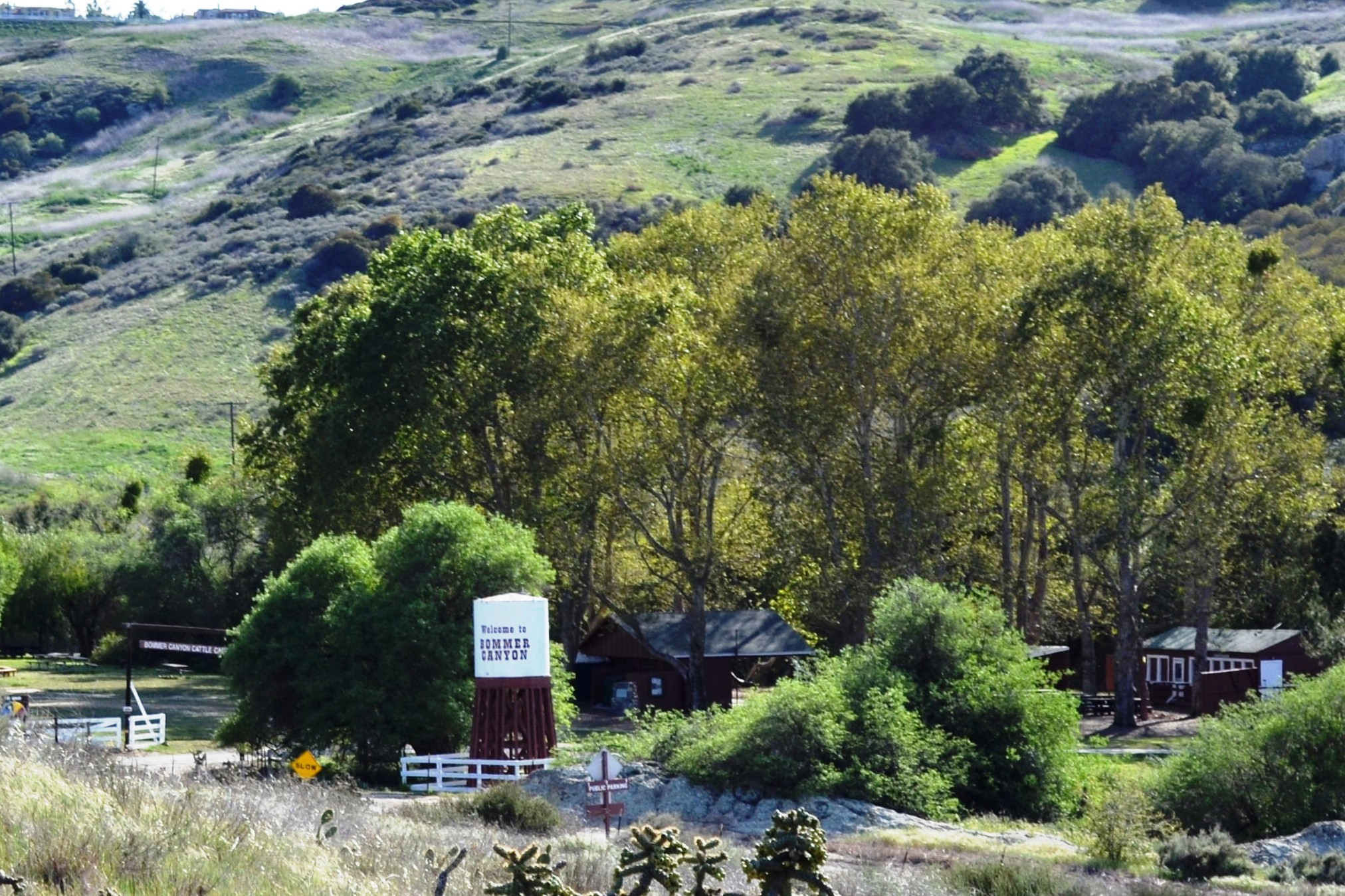 Photograph of the Bommer Canyon Cattle Camp area of Bommer Canyon in Irvine, California.